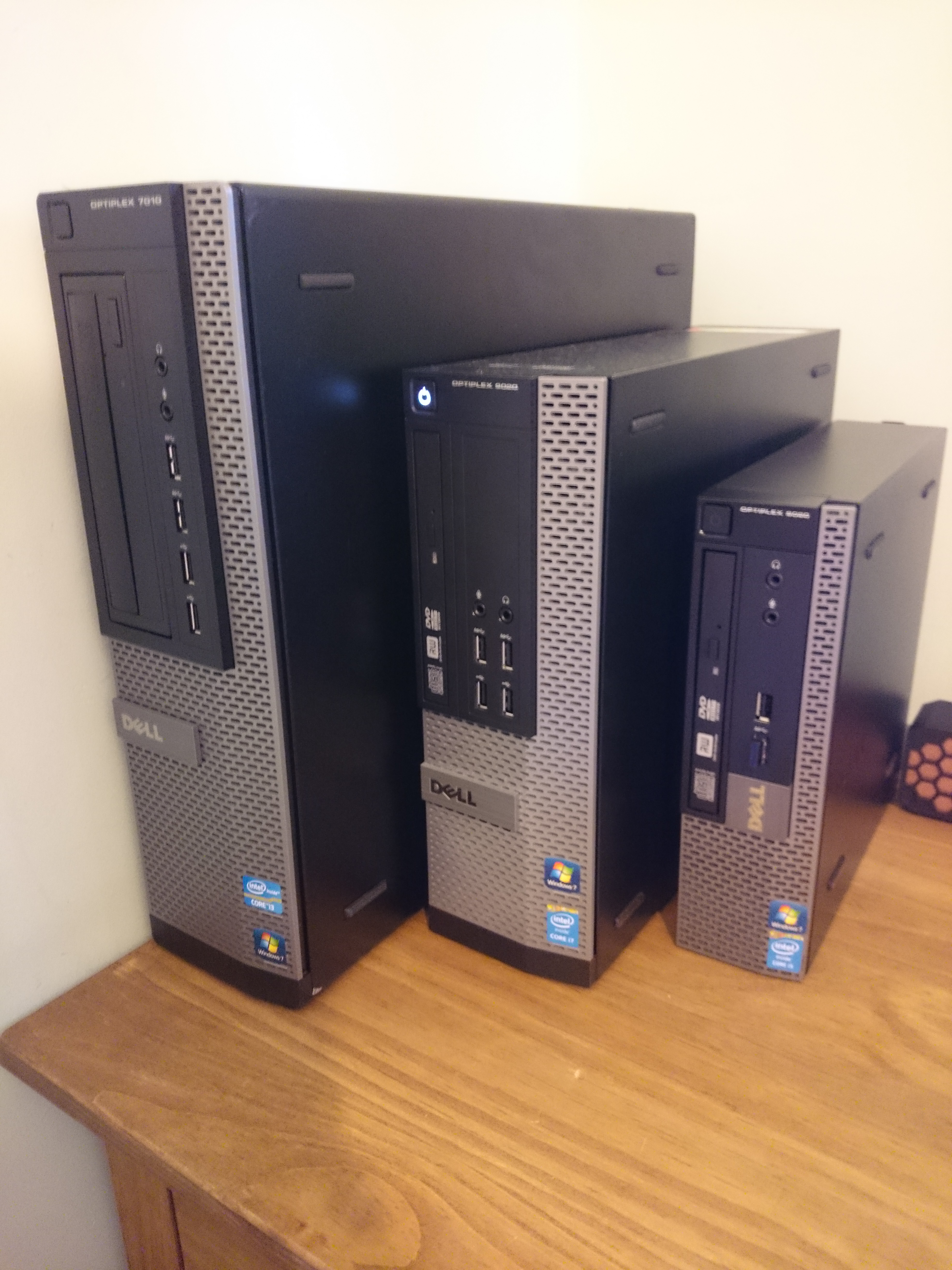 Dell OptiPlex Series 4 DT to USFF Front view